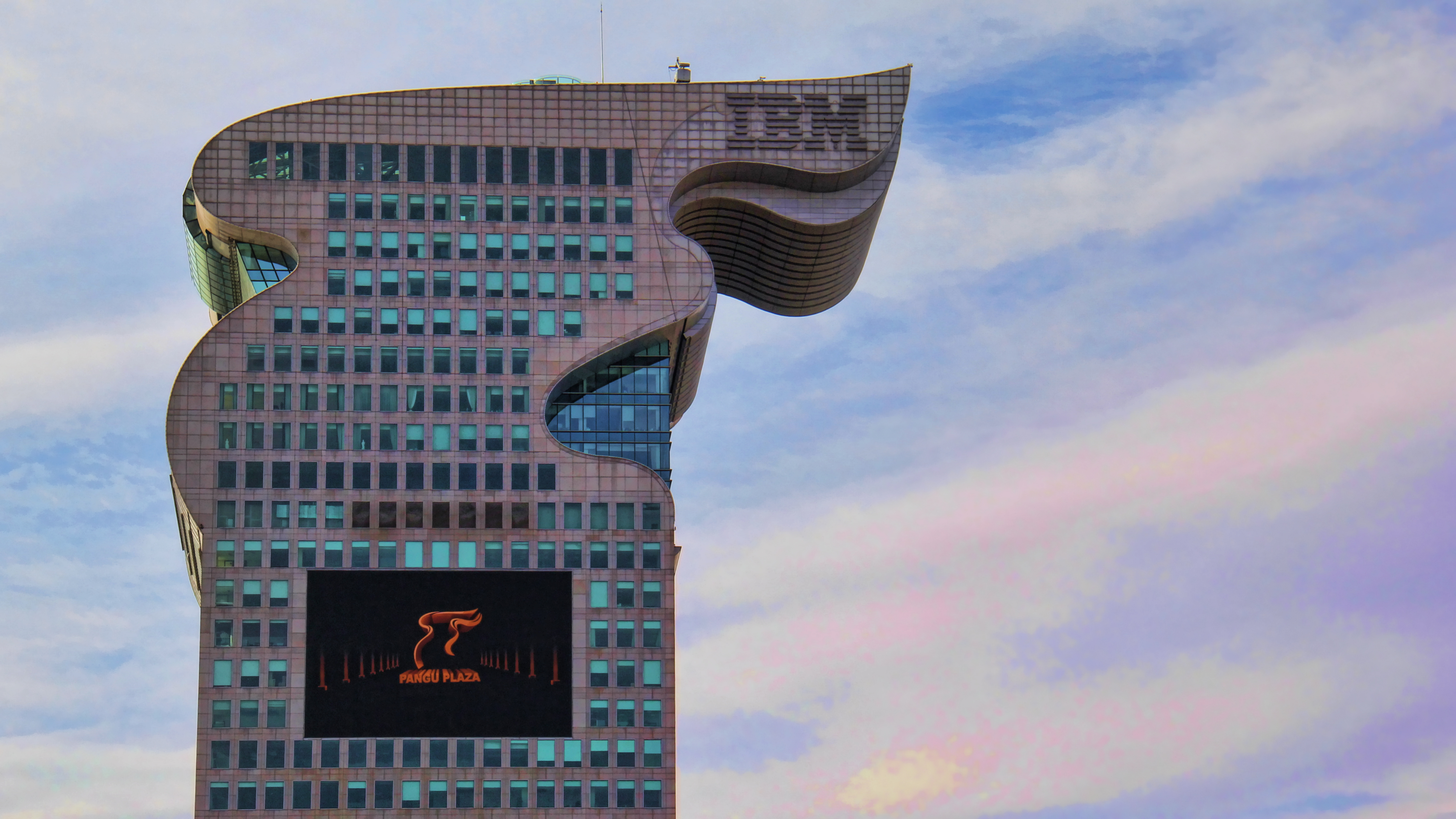 IBM office in Beijing, China. Nicknamed "torch building" and "dragon's head".